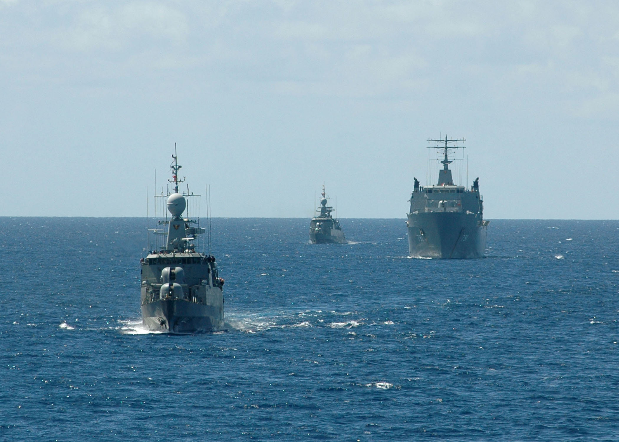 The Royal Thai Navy corvette HTMS Sukhothai (FSGM 442), left, steams at the front of a ship formation while the corvette HTMS Rattanakhosin (FSGM 441), center, and the amphibious dock landing ship HTMS Angthong (LPD 791), right, steam behind during the at-sea phase of Cooperation Afloat Readiness and Training (CARAT) 2013 in the Gulf of Thailand June 8, 2013. CARAT is a series of bilateral exercises held annually in Southeast Asia to strengthen relationships and enhance force readiness.